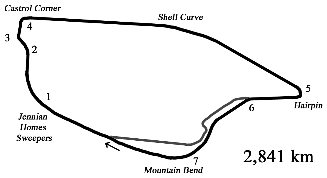 Map of Pukekohe Park Raceway in New Zealand.